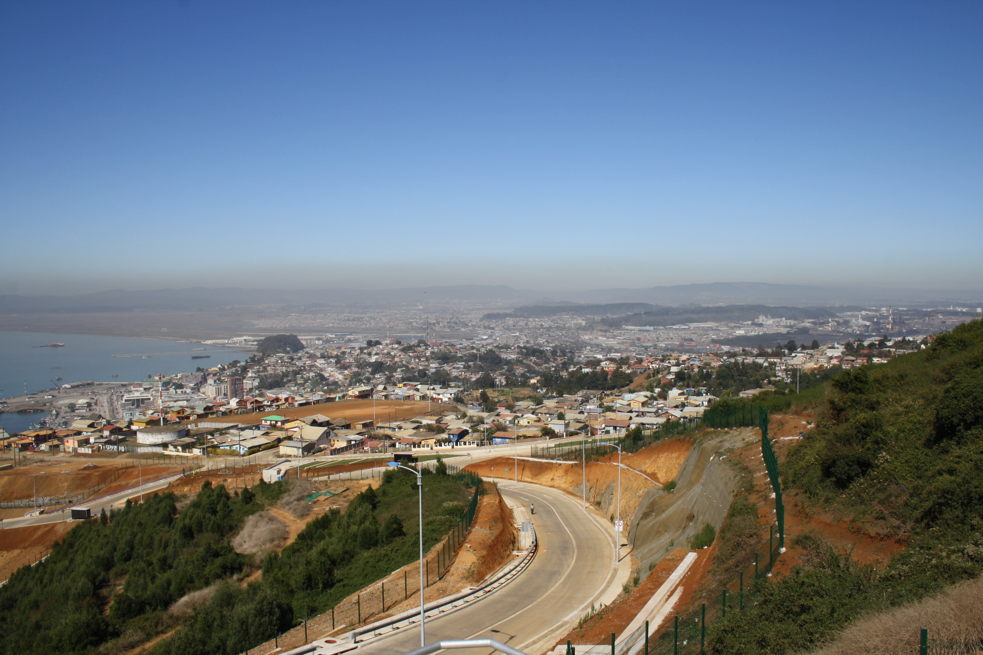 Talcahuano viewed from Michimalonco